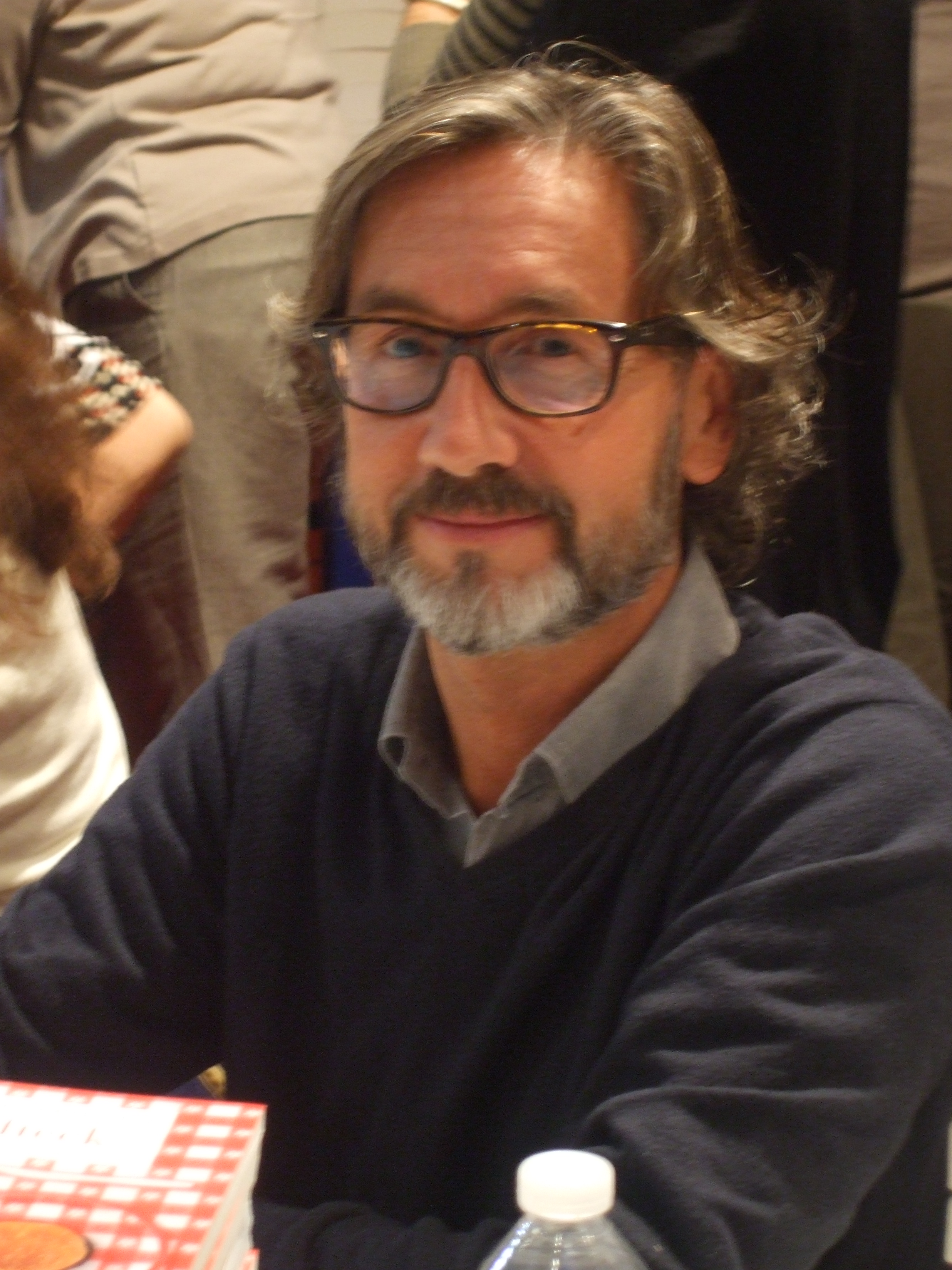 Martin Provost, french writer, Brive la Gaillarde book fair, France, 2010 11 05